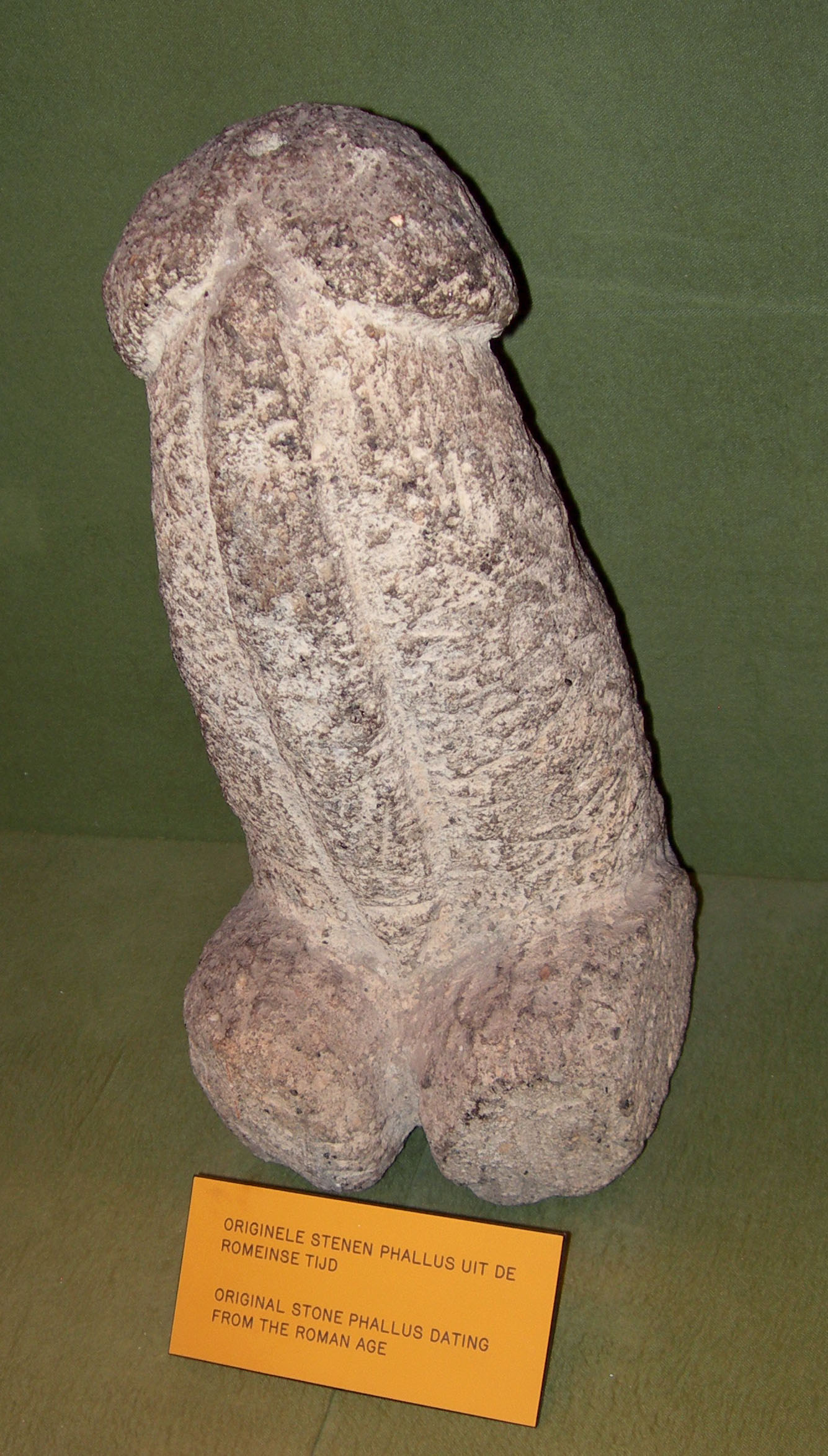 Original stone phallus dating from the Roman Age